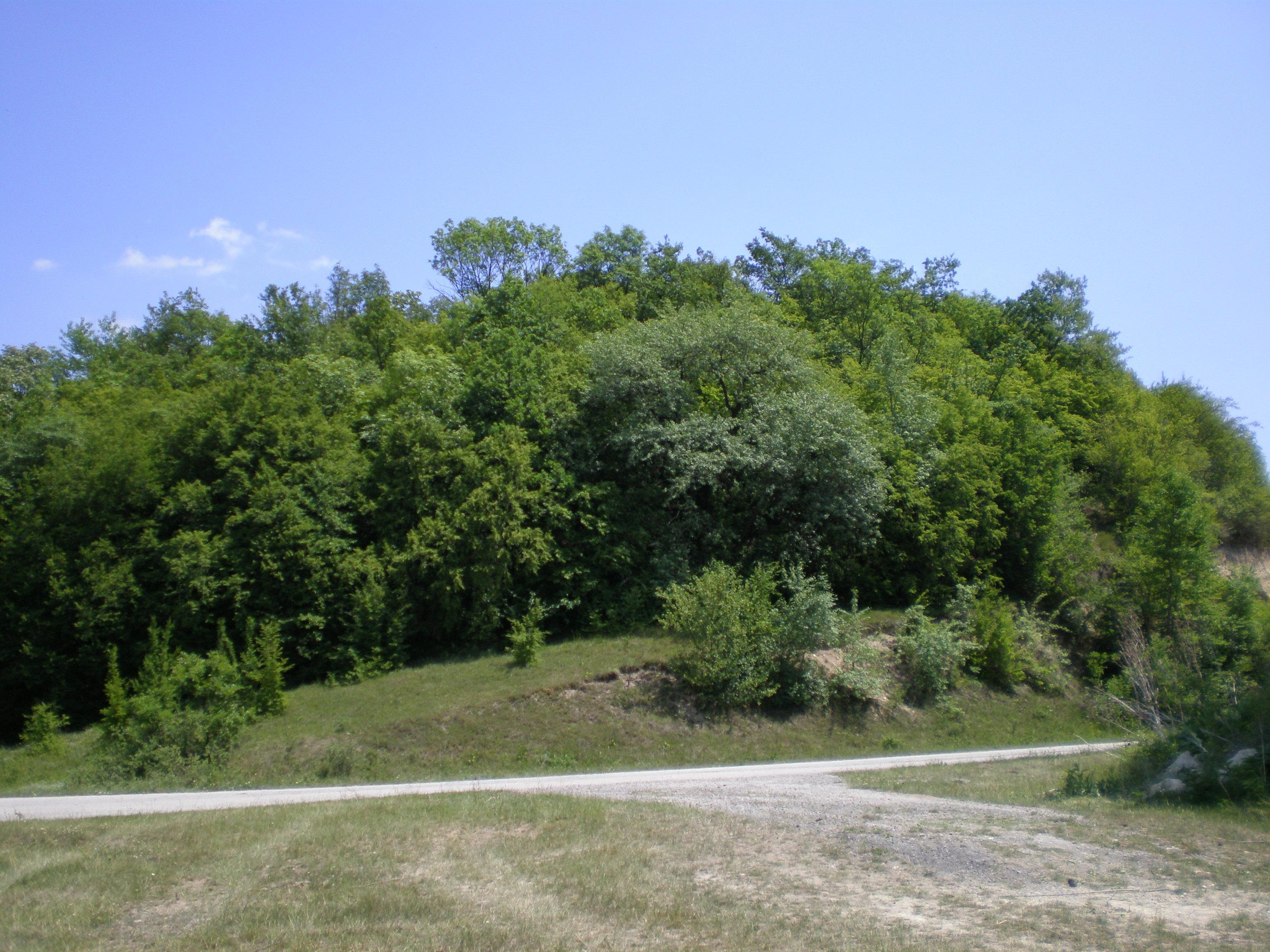 The hill hiding the ruins of the Dobrosel fort, village Sadina, Bulgaria